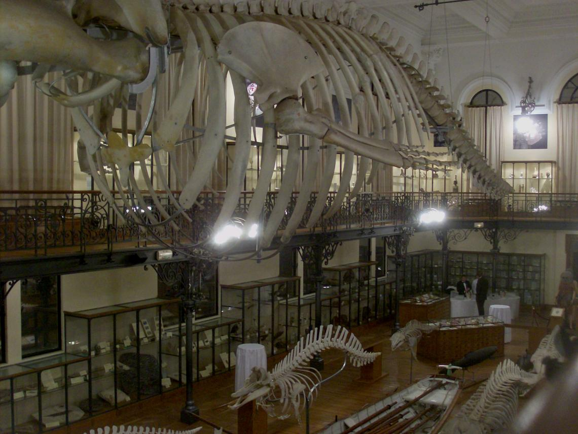 The beautiful early 20th century interior of the Oceanographic Museum in Monaco